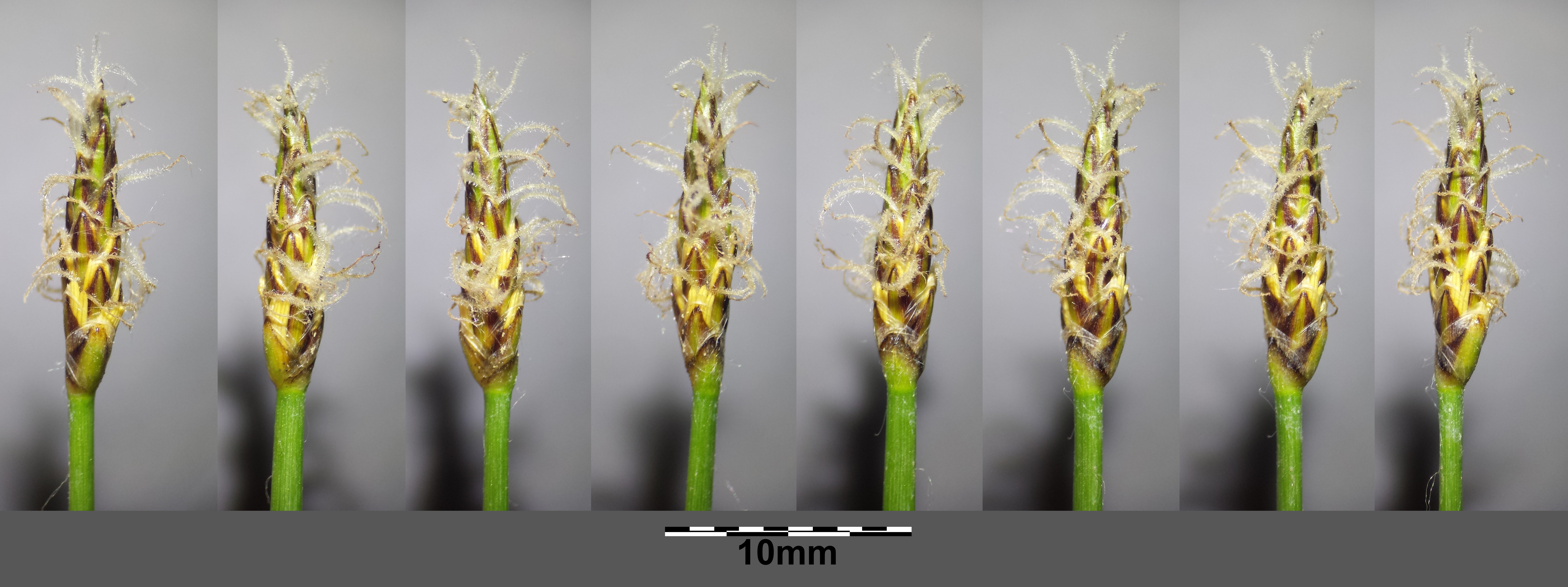 Spikelet Taxonym: Eleocharis uniglumis ss Fischer et al. EfÖLS 2008 ISBN 978-3-85474-187-9 Location: "Irissee" in Donaupark, Vienna-Donaustadt - ca. 160 m a.s.l. Habitat: shore of a pond